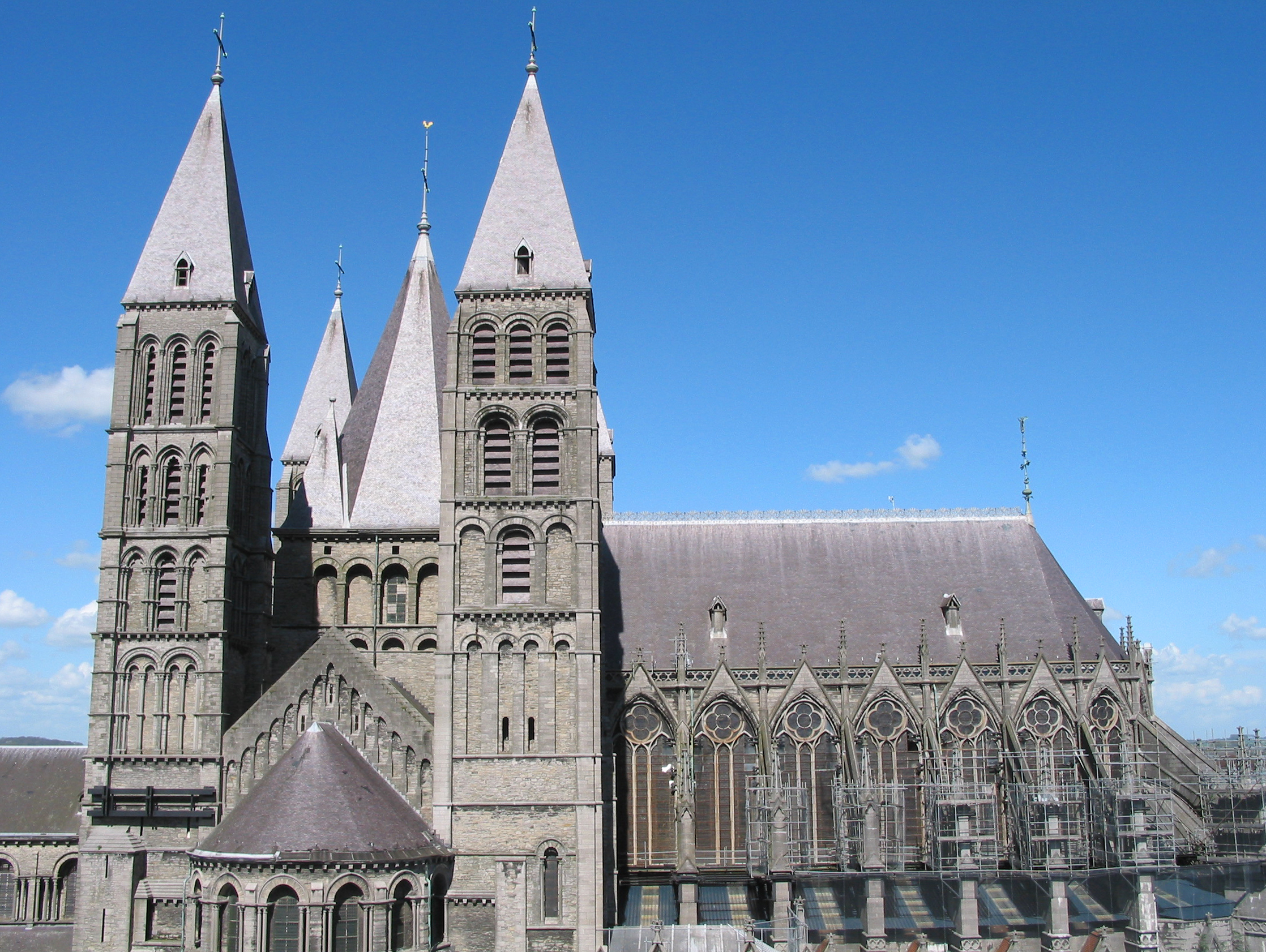 Tournai (Belgium), the five romanesque towers (XIIth century) and the gothic choir (XIIIth century) of the Notre-Dame (Our Lady) cathedral.